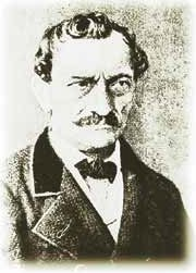 Dr. Karl Henn, who purchased and developed the Radenska mineral water source/spa. Original date of photo unknown, copied from the work shown above, can be downloaded from the Radenska website. The doctor took his own life at Rimske Toplice on June 19, 1877, after discovering that he had kidney cancer (which was then incurable).